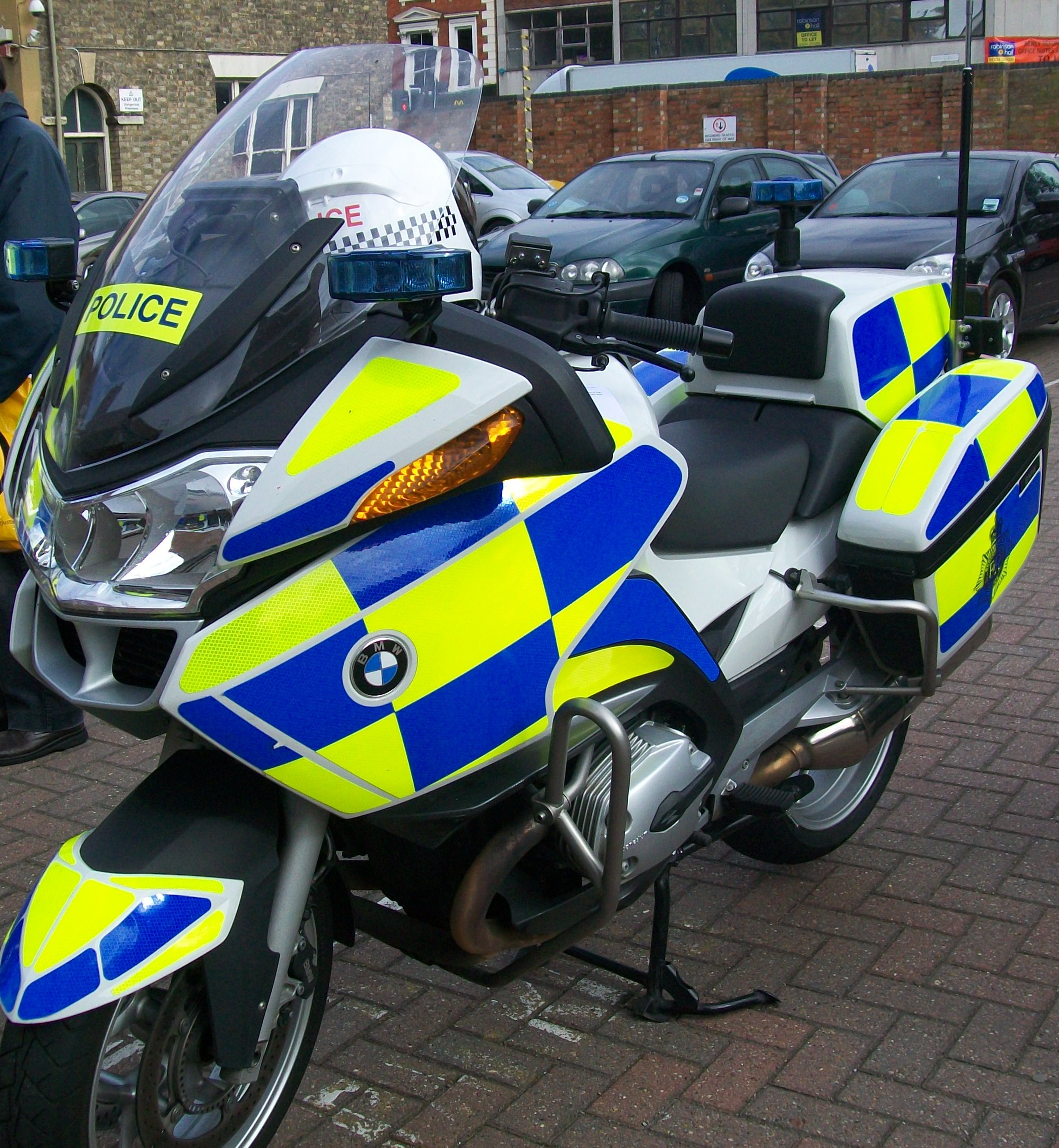 A Bedfordshire Police Motorcycle (possibly a BMW R1200RT) on display in Bedford Magistrates Court. This photo was taken on the Open Day as part of Inside Justice 2009.